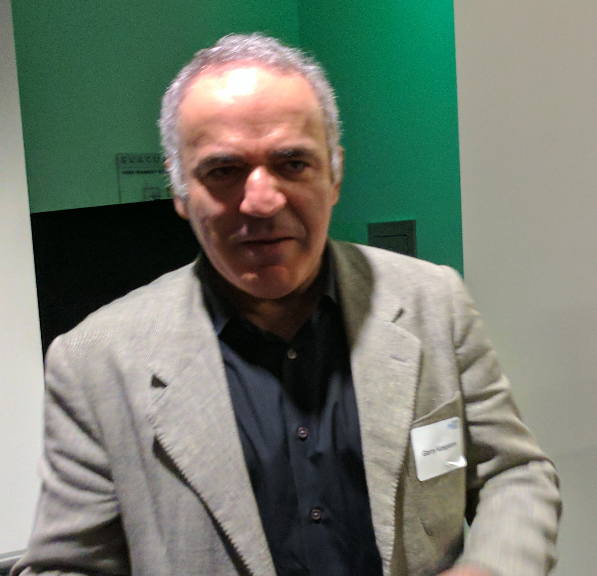 Garry Kasparov in San Francisco, February 2017